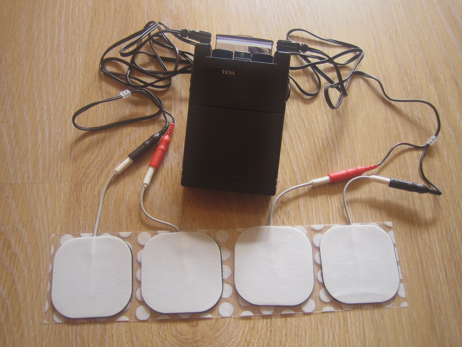 TENS (Transcutaneous Electrical Nerve Stimulator)